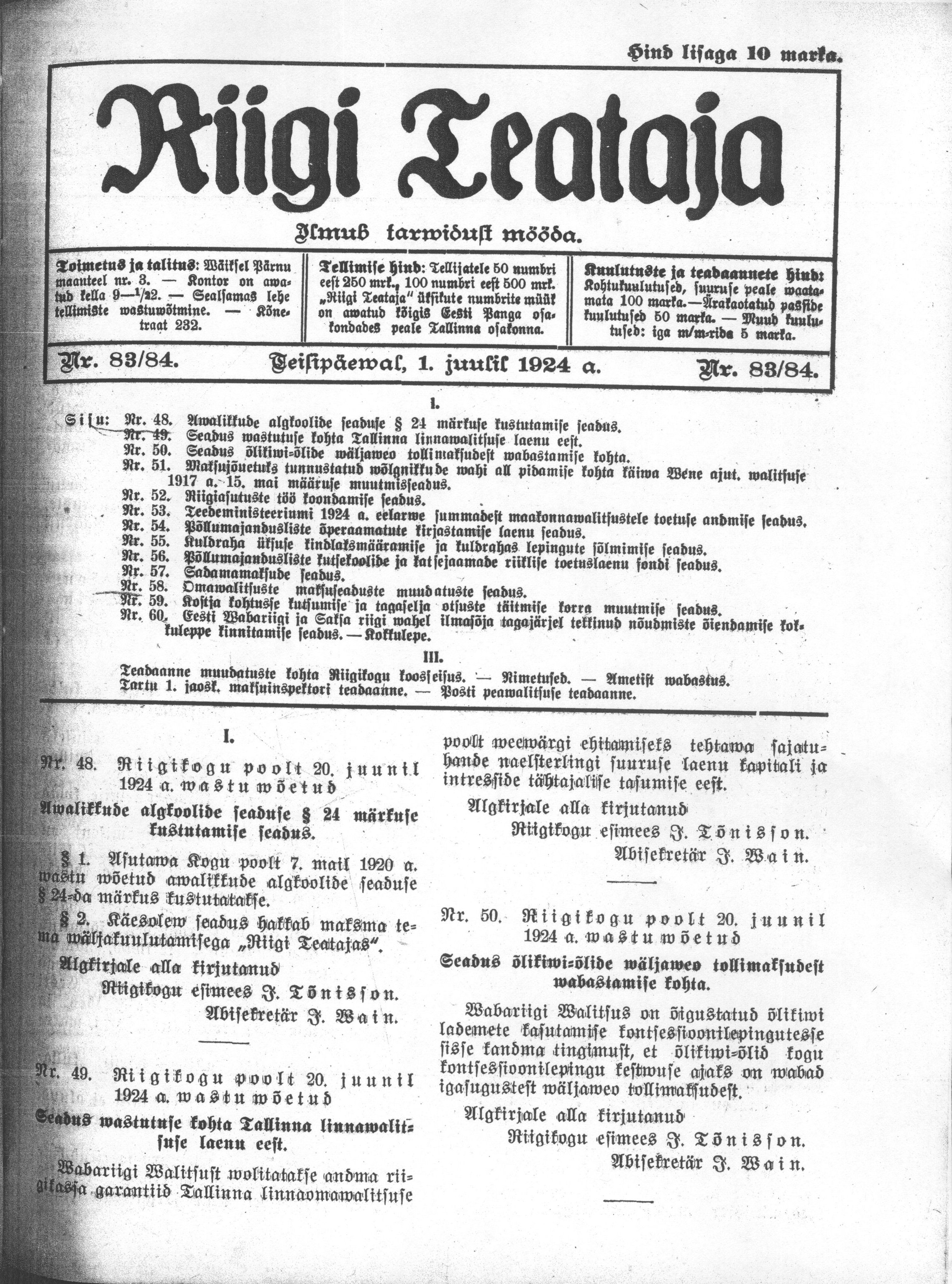 en: This is a scan of the historical document